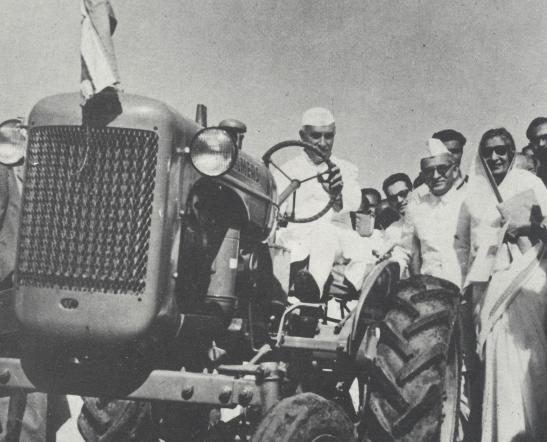 Jawaharlal Nehru driving a tractor at the Indian Agricultural Research Institute, New Delhi, 2 October 1952. Also seen are K.M. Munshi and Raj Kumari Amrit Kaur